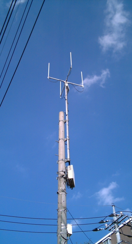 WILLCOM_PHS Mobile phone tower tokorozawa City japan photography day, 2006.9.10. photography person Tokoroten